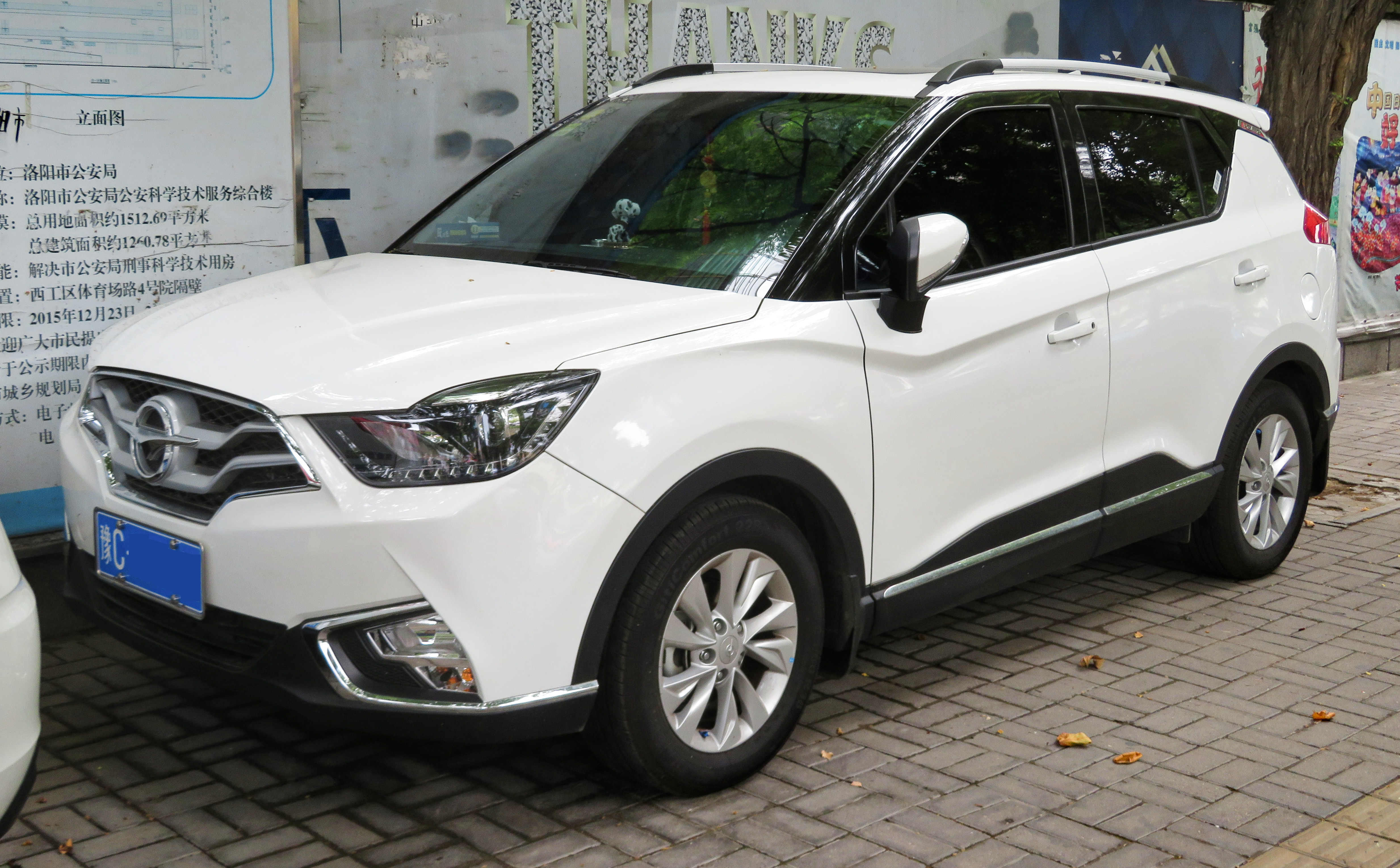 A 2018 Haima S5 Young photographed in Xigong District, Luoyang, Henan province, China